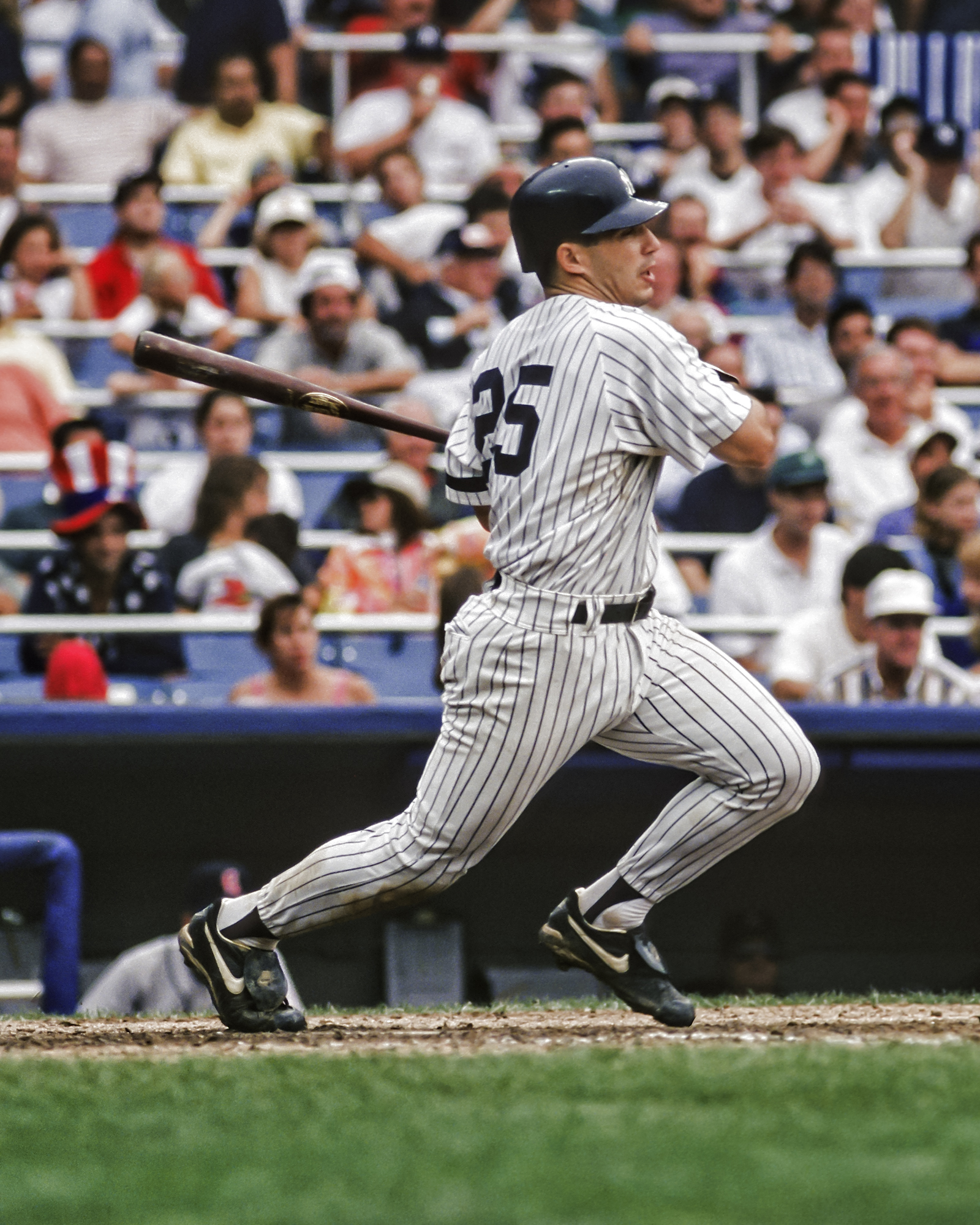 The California Angels play the New York Yankees @ Yankee Stadium on August 21, 1996. Joe Girardi connects for one of his three hits on the afternoon. Check out the boxscore @